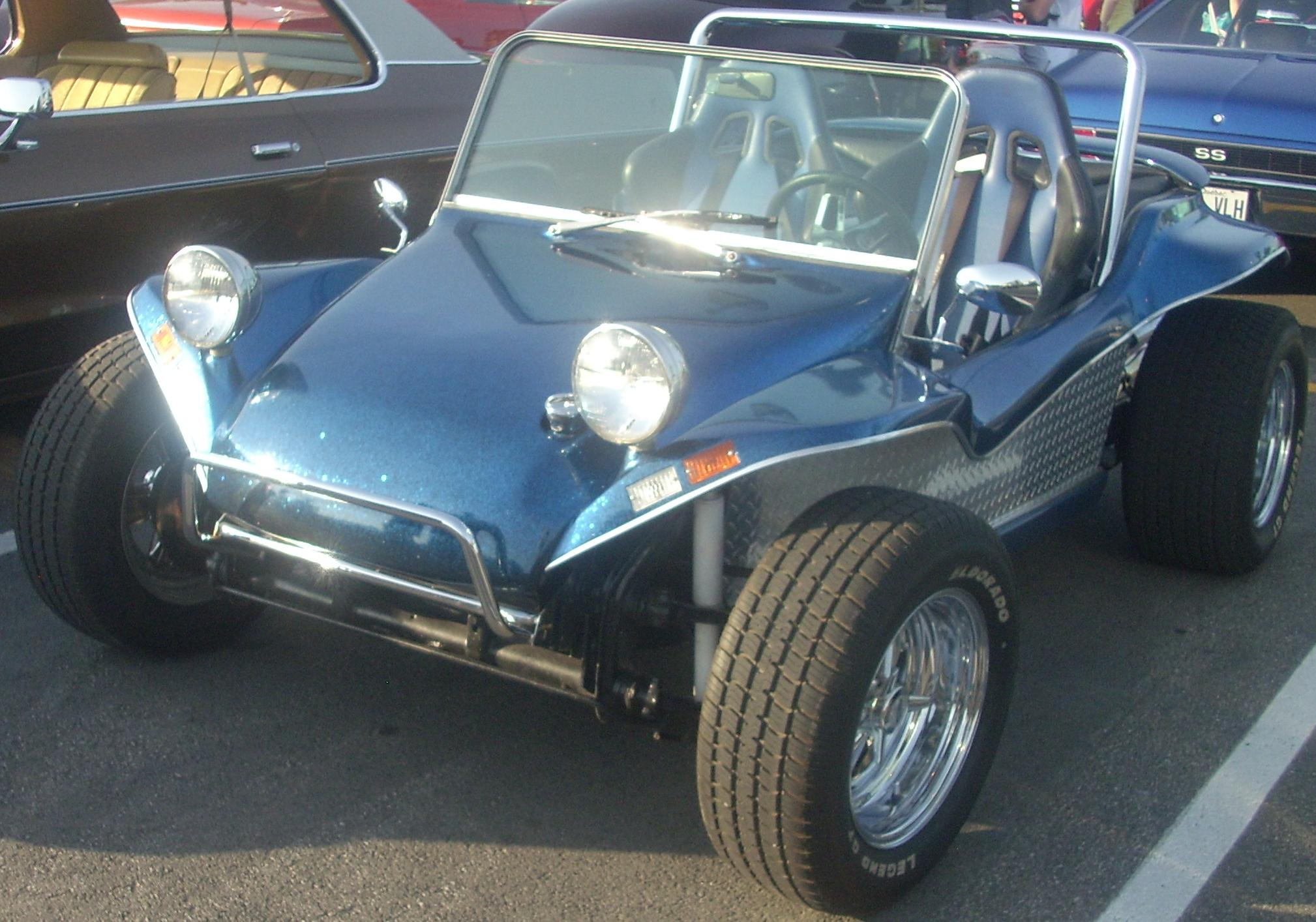 Volkswagen Dune Buggy photographed in Laval, Quebec, Canada at Centropolis Laval.